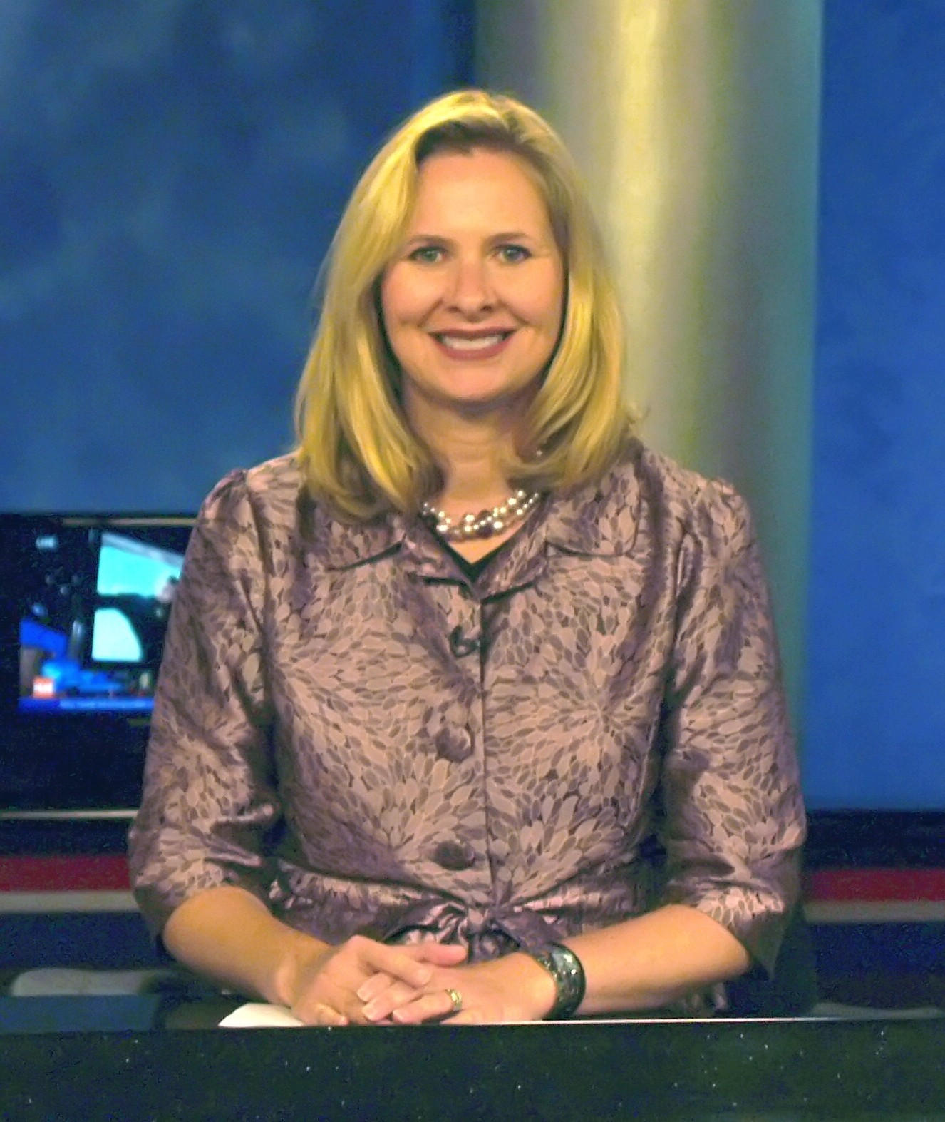 I personally took this photo of former Department of Justice Director Cindy Dyer in San Diego.